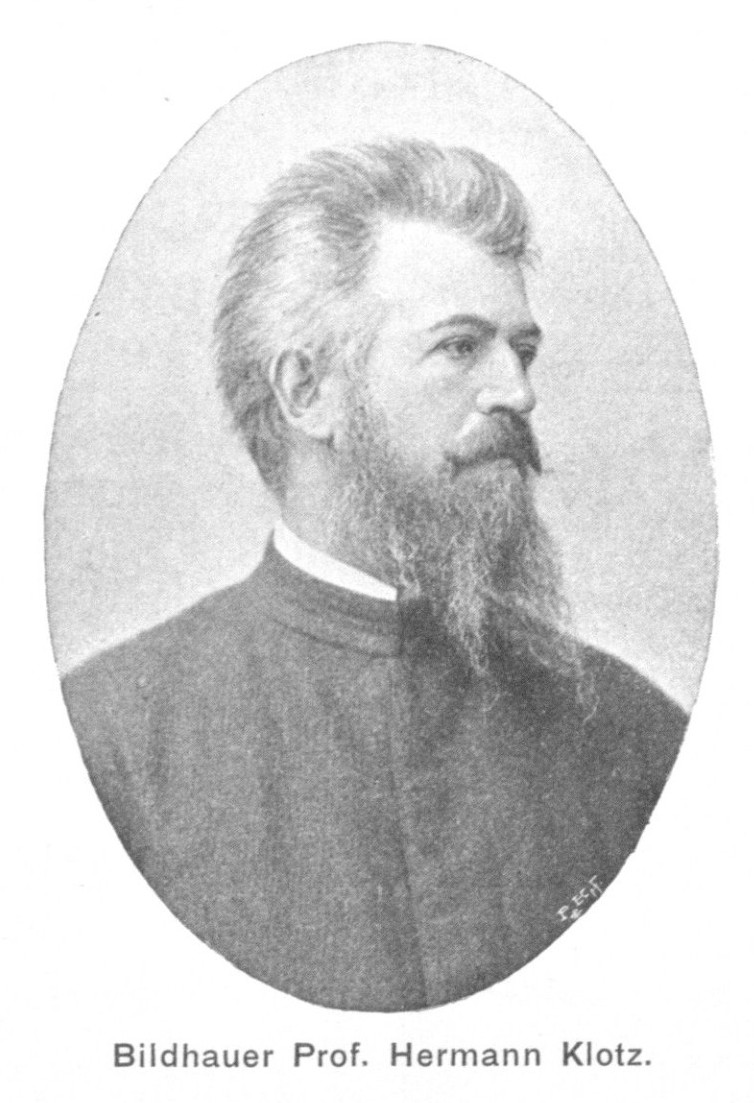 Portrait of Hermann KlotzHermann Klotz (1850-1932), Austrian sculptor.